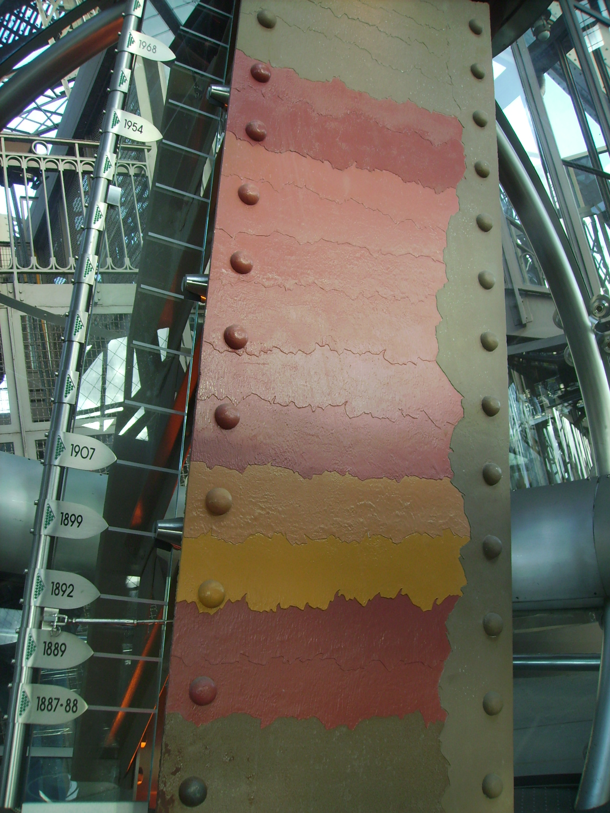 colour history of Eiffel Tower